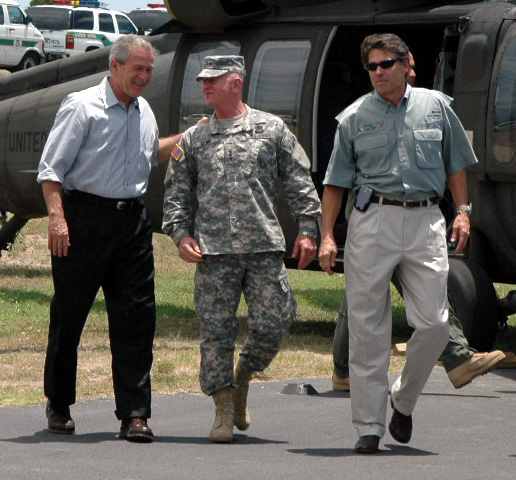 President George W. Bush, left, is greeted by U.S. Army Lt. Gen. H. Steven Blum, Chief of the National Guard Bureau, center, and Texas Gov. Rick Perry at the McAllen-Miller International Airport in McAllen, Texas, Aug. 3, 2006. Bush is in the area to visit National Guard troops participating in Operation Jump Start. (U.S. Army photo by Sgt. Jim Greenhill) (Released)